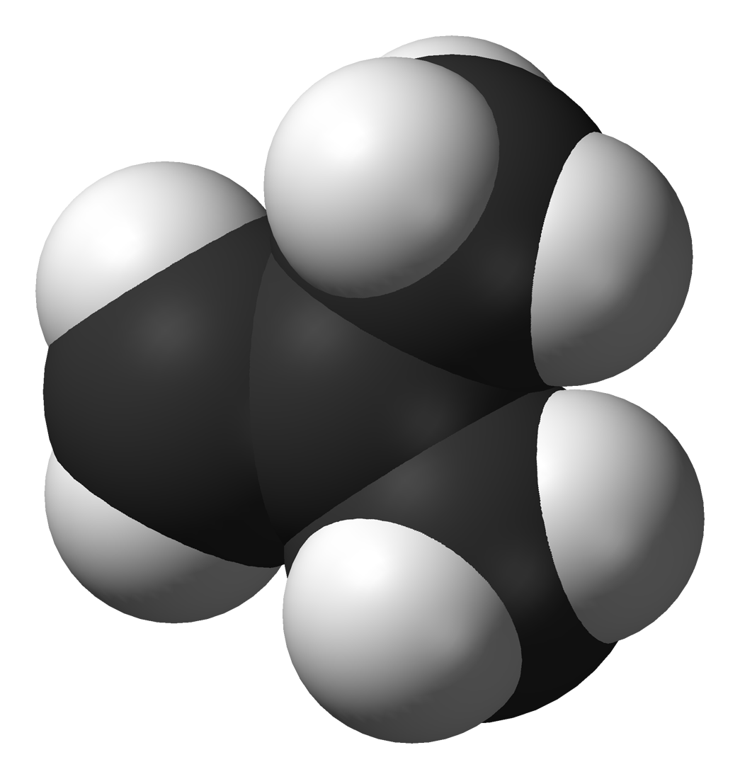 Space-filling model of the isobutylene molecule